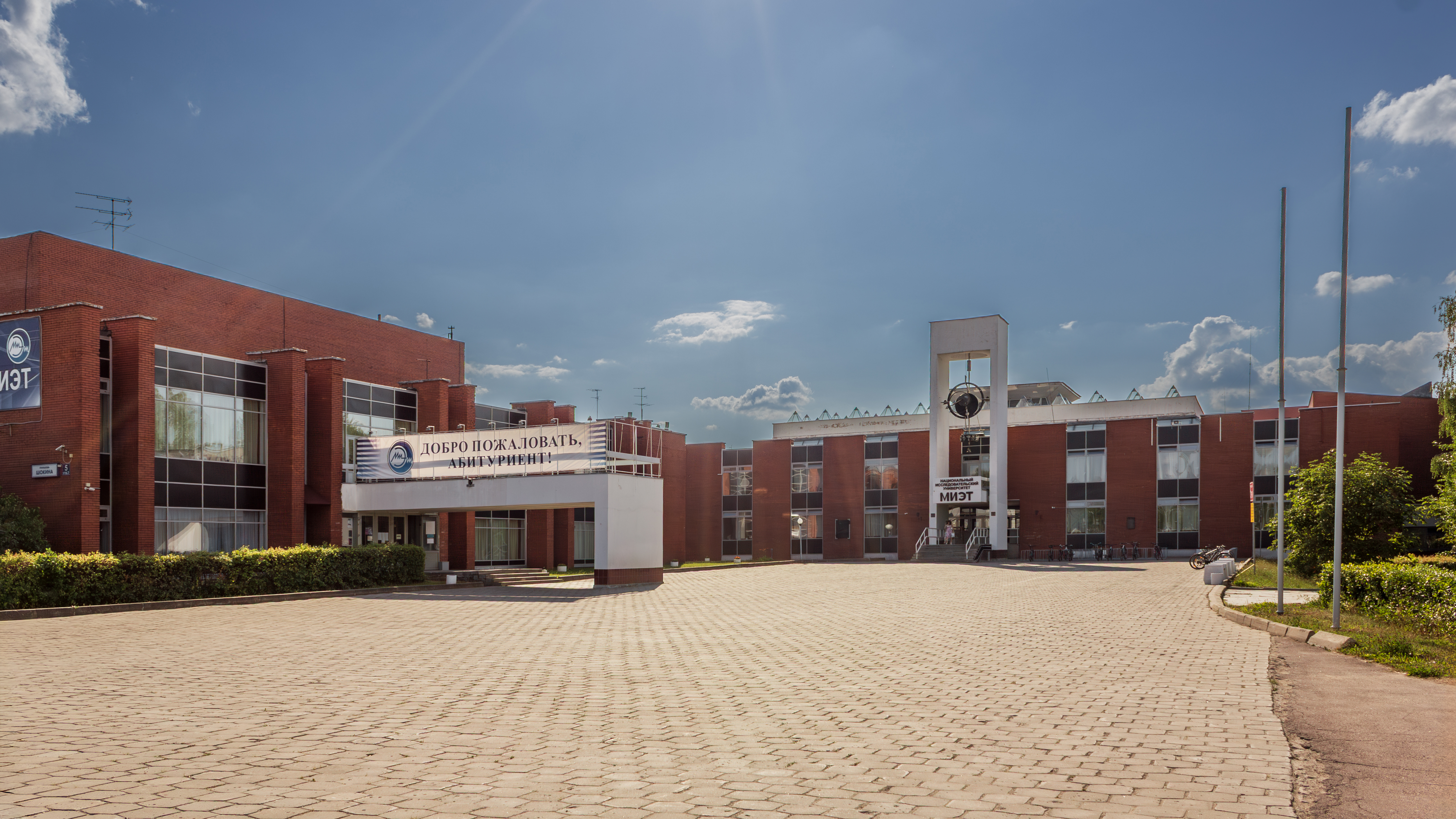 National Research University of Electronic Technology / MIET in Zelenograd, Russia